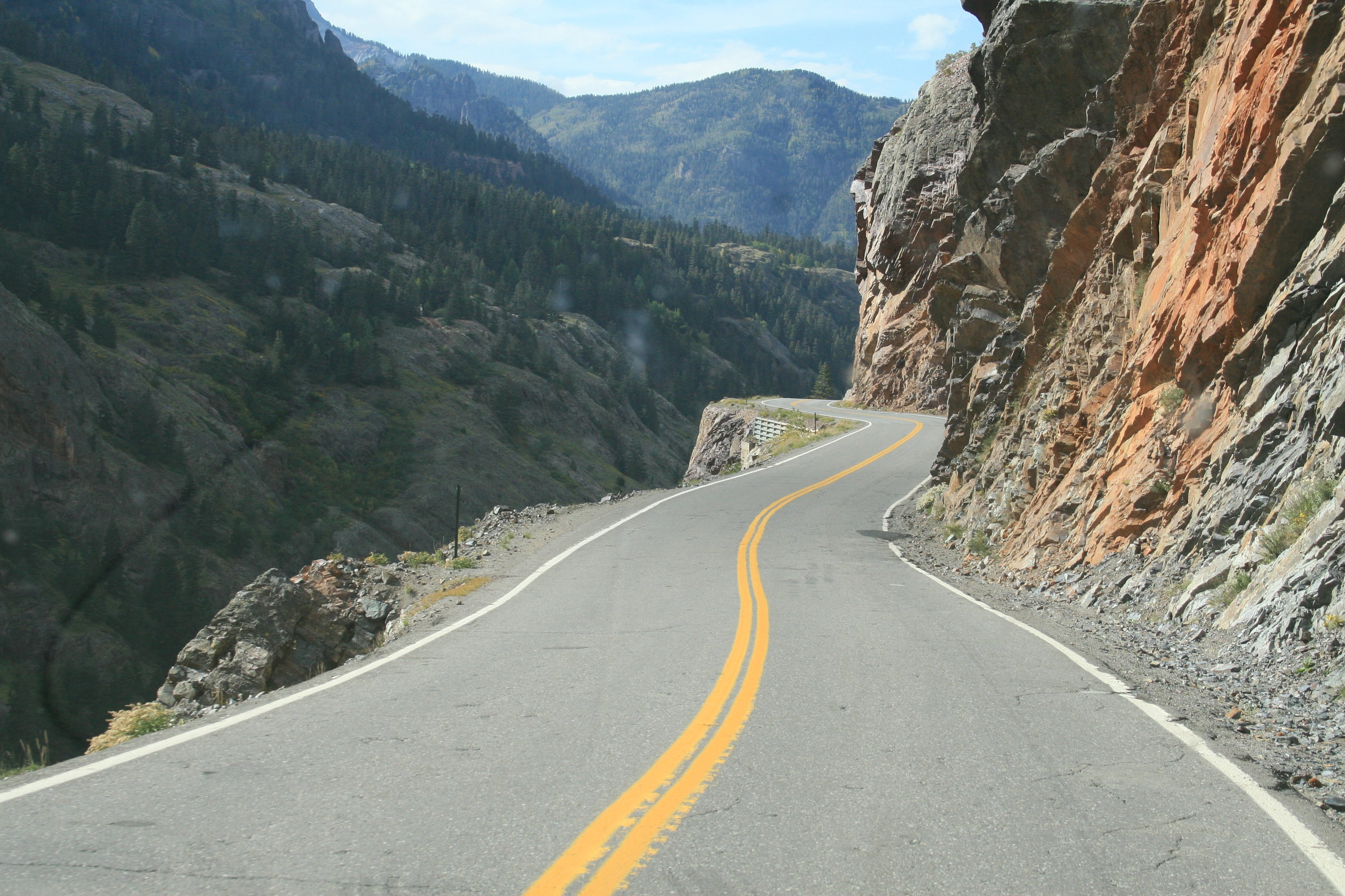 Series of photographs of the stretch of the Million Dollar Highway between the Red Mountain Pass and Ouray: 10/18. This image shows the U.S. 550 at the Uncompahgre Gorge.